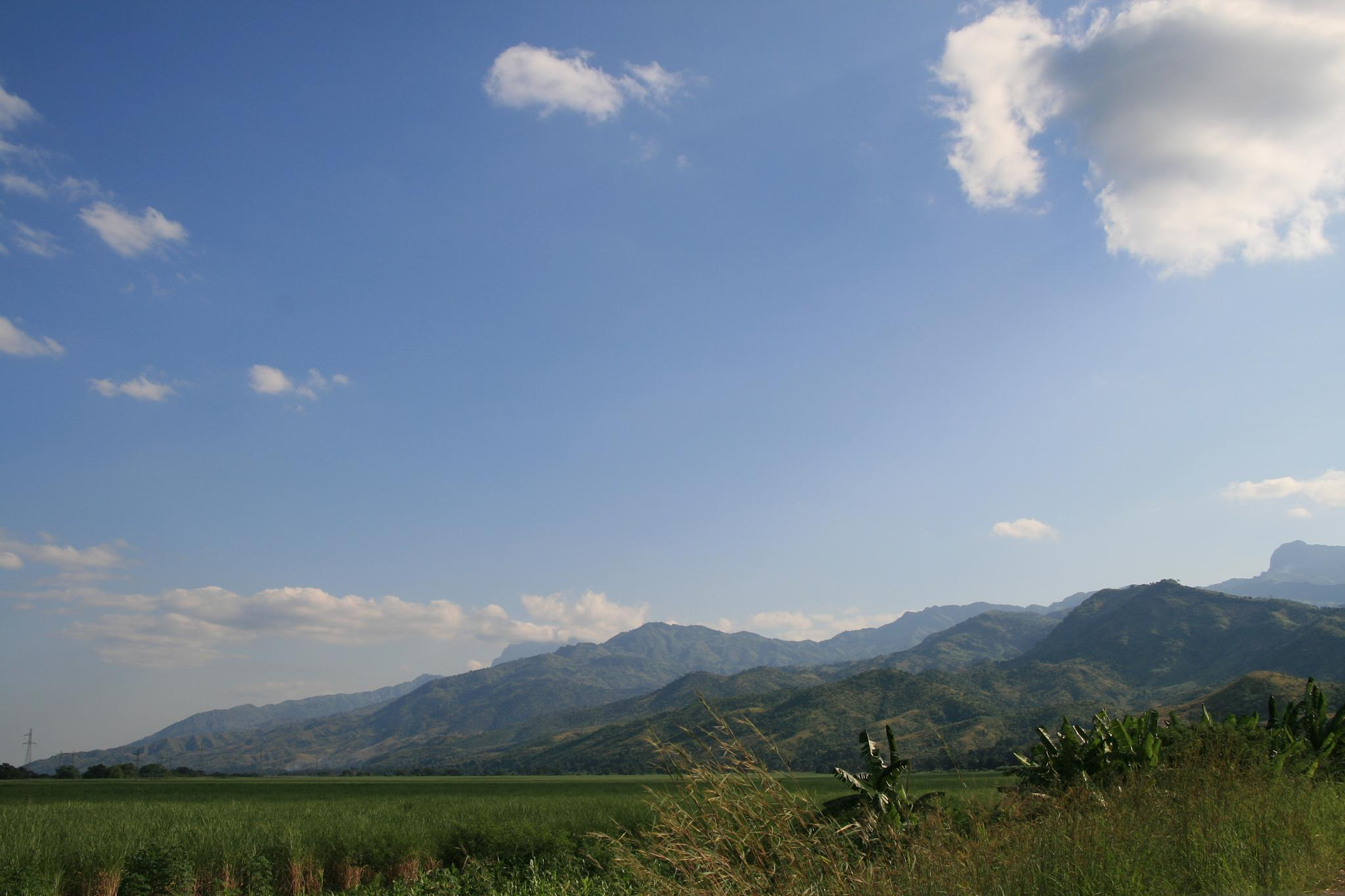 Udzungwa Mountains, Tanzania